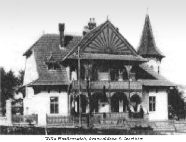 Insurgency headquarters at the Wasilewski family manor, Grunwaldzka 6 Street, Czortków. Soviet-occupied eastern Poland, 1939.